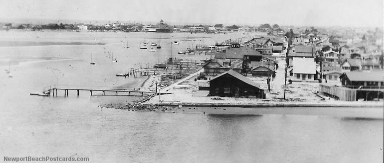 BalboaIsland 1928